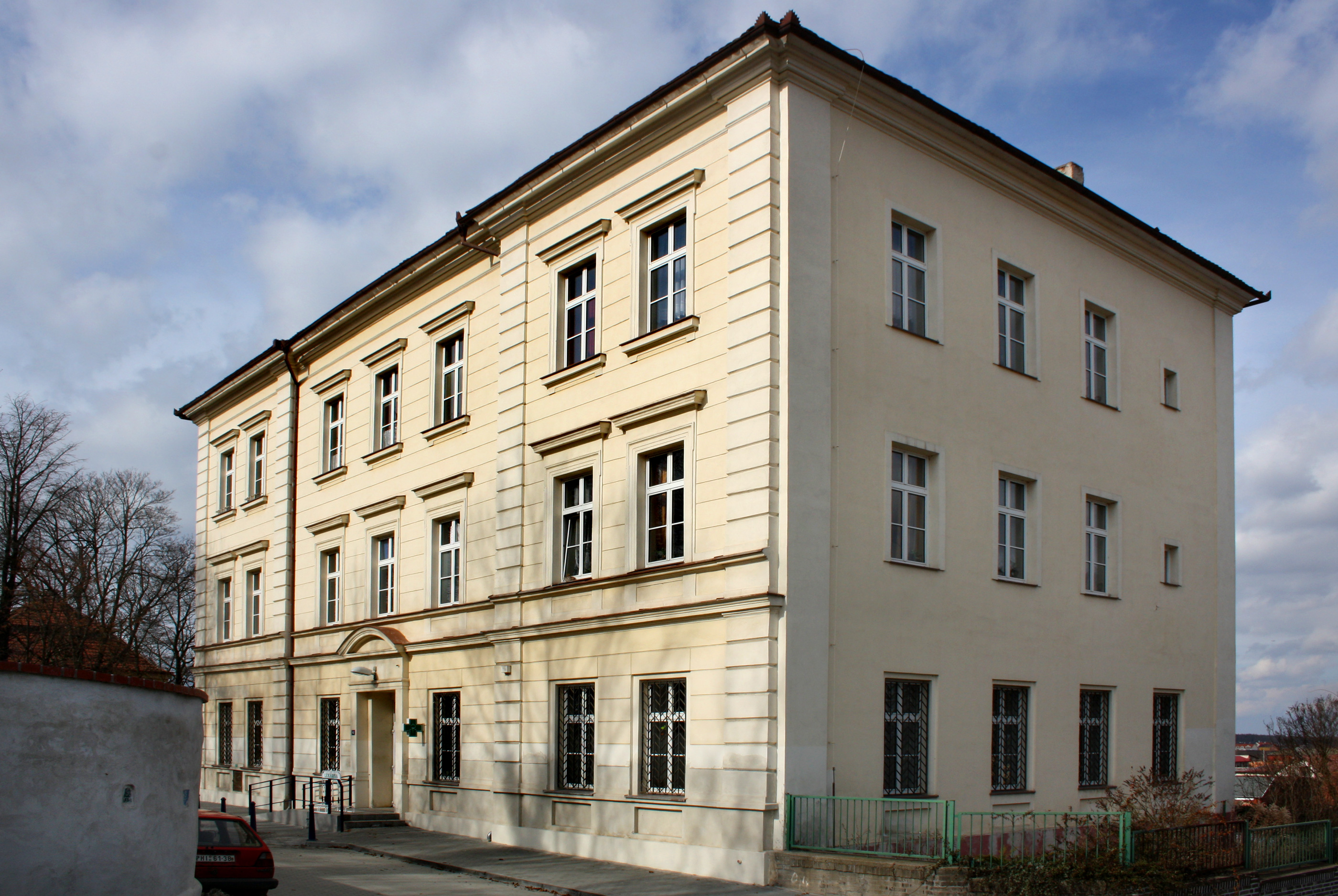 Old school house in Líbeznice, Czech Republic